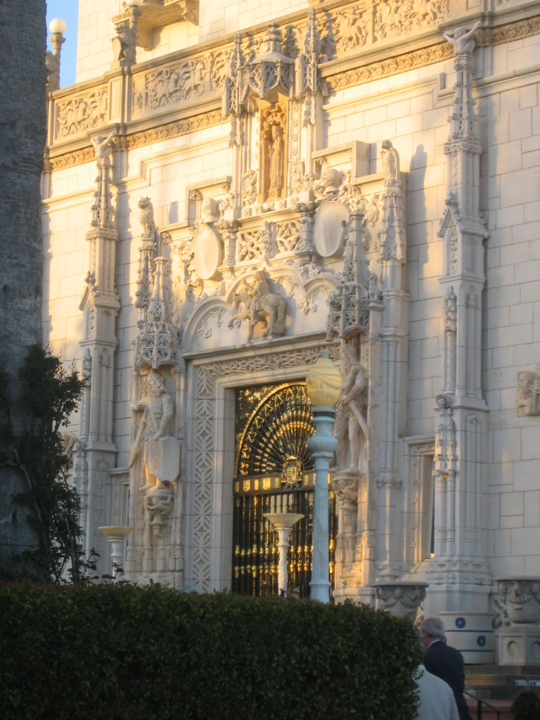 Description : Casa Grande, Hearst Castle, California, USA. Author : own work, Urban ; I took this picture on April 2006.